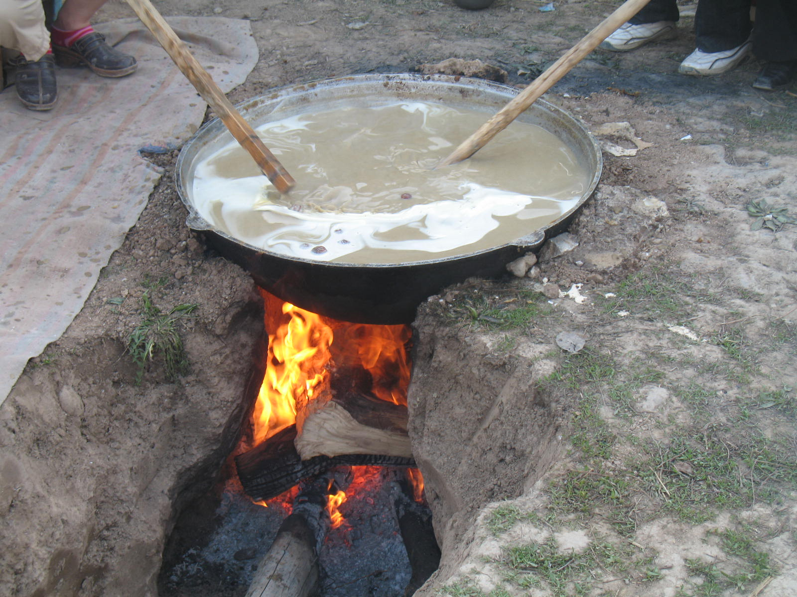 Sumalak being made in a Kazan in Aq-örgöö, Chüy, Kyrgyzstan Кыргызча: Ак-өргөөдө (Чүй обулусунда) сүмөлөк казан ичинде жасалып жатат.